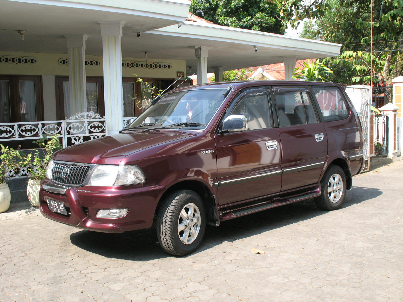 This is the picture of Toyota Kijang LGX 2003. I took this picture myself, and release it under the GFDL. Feel free to use it. :)